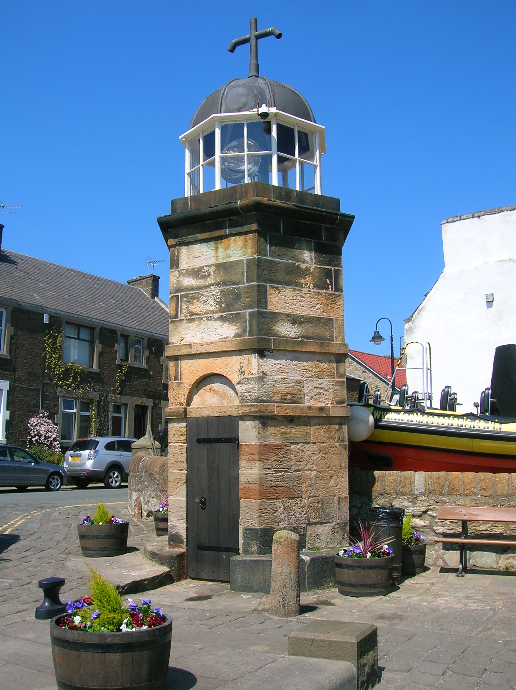 The North Queensferry Lighthouse, said to tbe the World's smallest. Fife, Scotland.